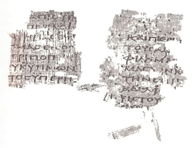 1Th 5.8-10